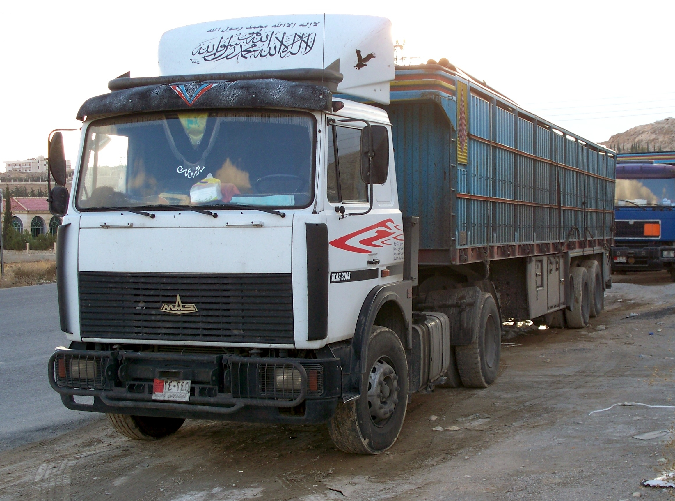 A MAZ-54323-truck in Syria.